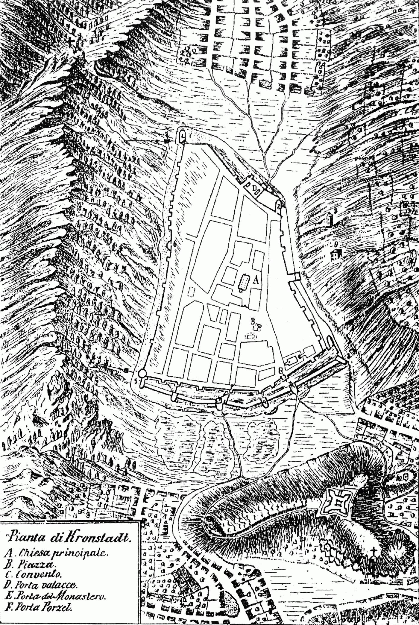 1699 map of Braşov by Giovanni Morando Visconti